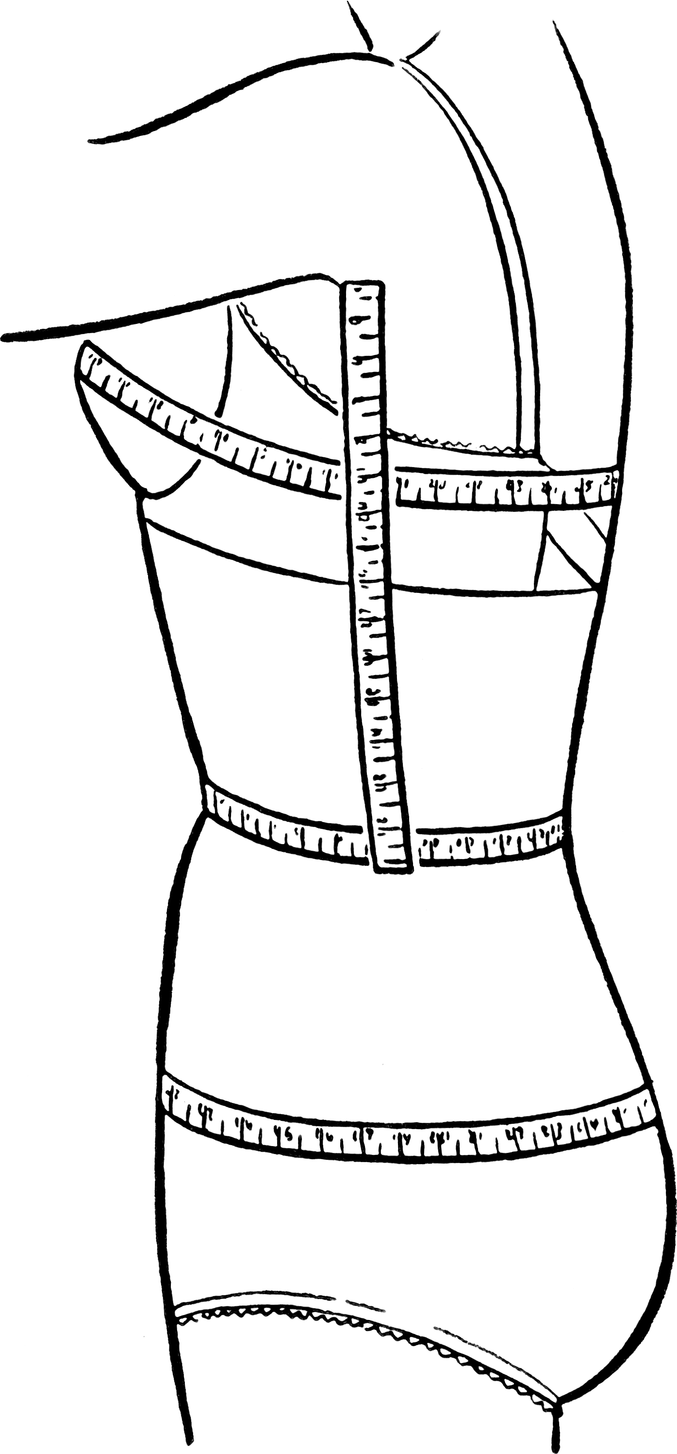 12. For a corselet, take four measurements: bust, waist, hip, and back underarm to waist.